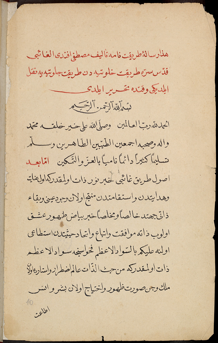 Risāle-i tarīkatnāme (folio 1 verso) by Sheikh Mustafa Gaibi, a 17th-century dervish from Ottoman Bosnia. The manuscript is kept at the University Library in Bratislava (426 TF 7)